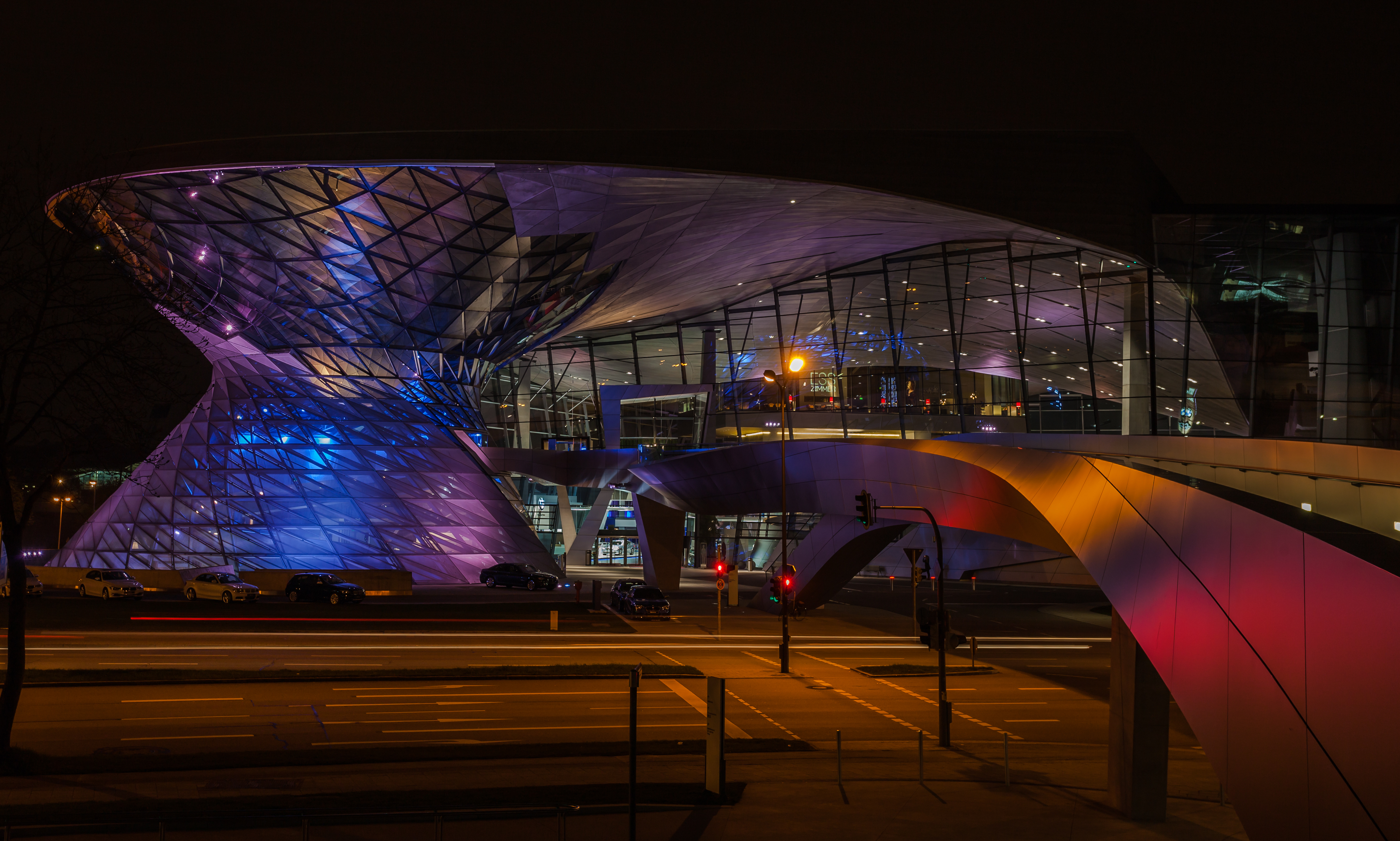 BMW Welt, Munich, Germany